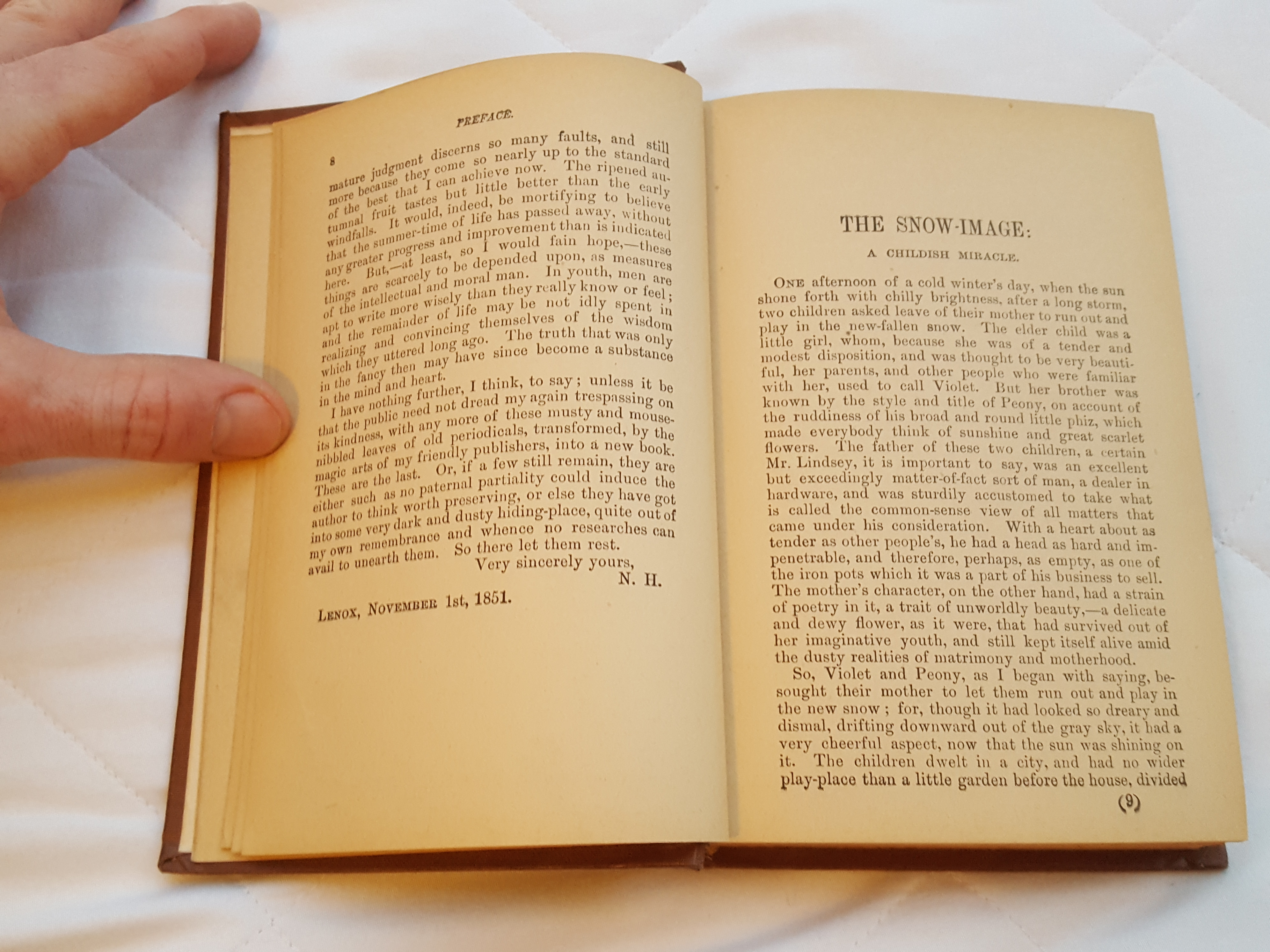 Preface and Chapter One pages of First Edition printed 1851